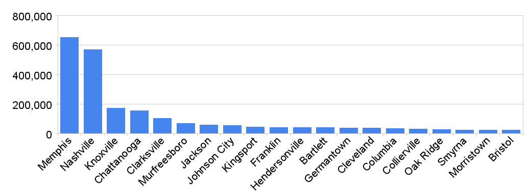 Graph of twenty largest cities in Tennessee by population (according to 2000 U.S. Census)